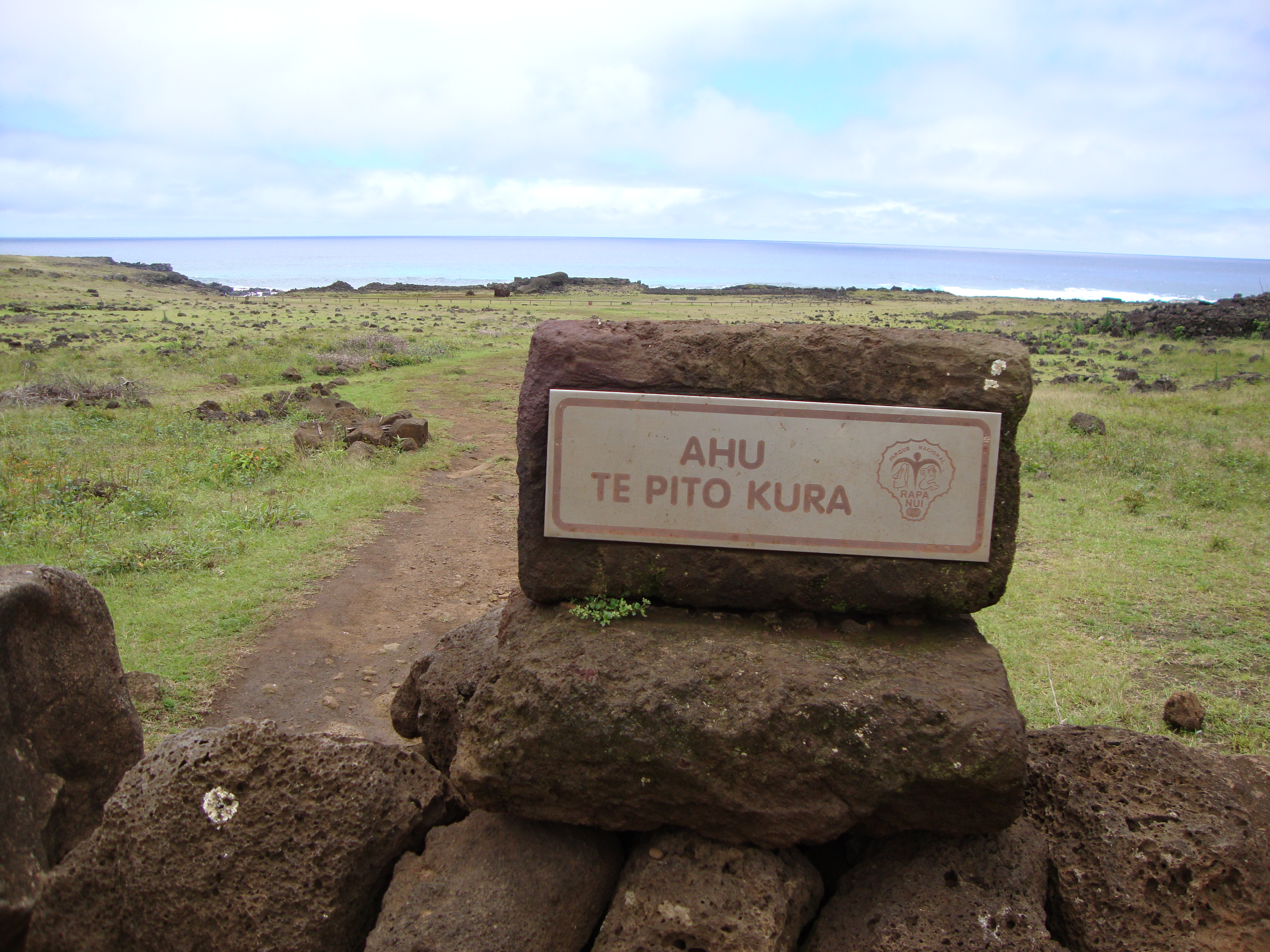 Parking lot sign near Ahu Te Pito Kura, looking north towards the ahu and the coast.